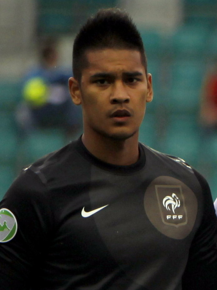 U-19 Spain vs France.